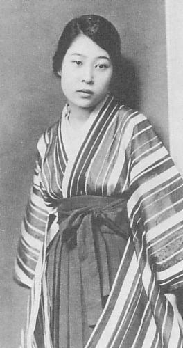 Jōgakusei (female student) in Taishō period